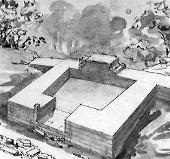 Corner Tower of the Roman Castle in Köngen (Germany)